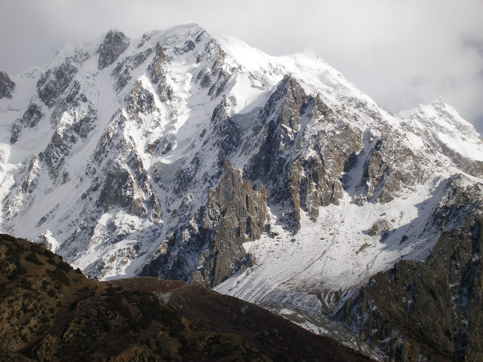 Miar Peak on ascent of Rush Peak